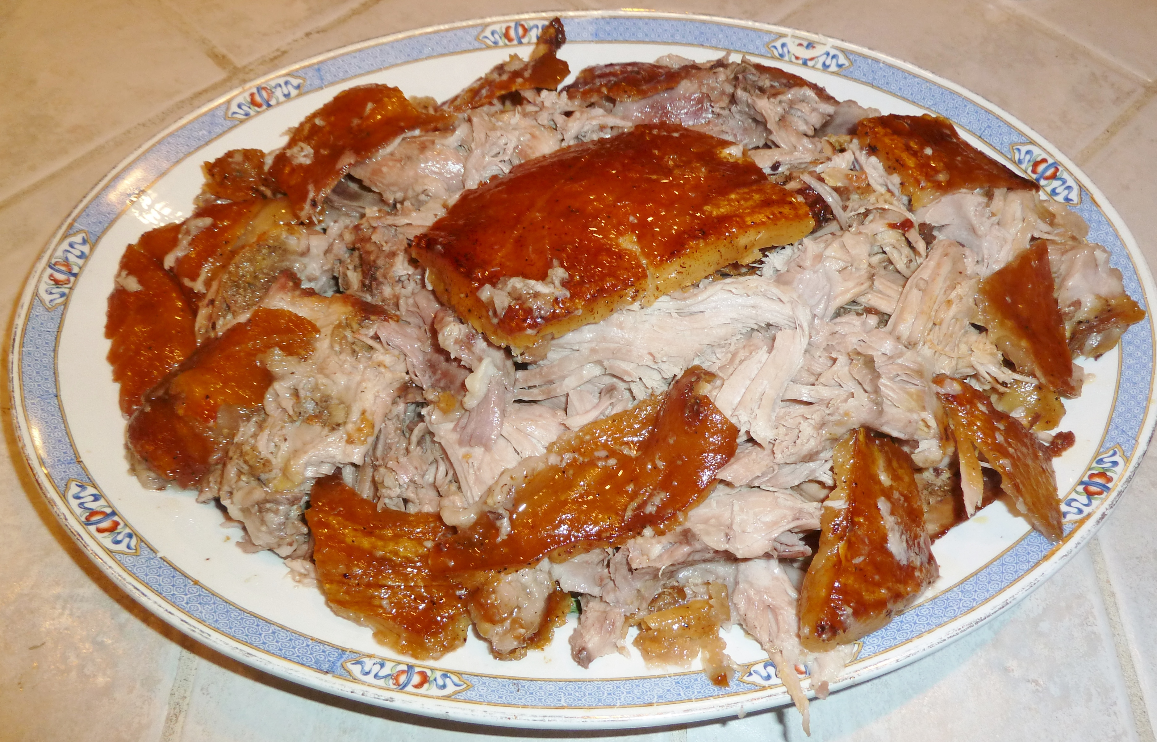 Pernil- roasted pork shoulder- ready to be served. Note the crispy skin chips